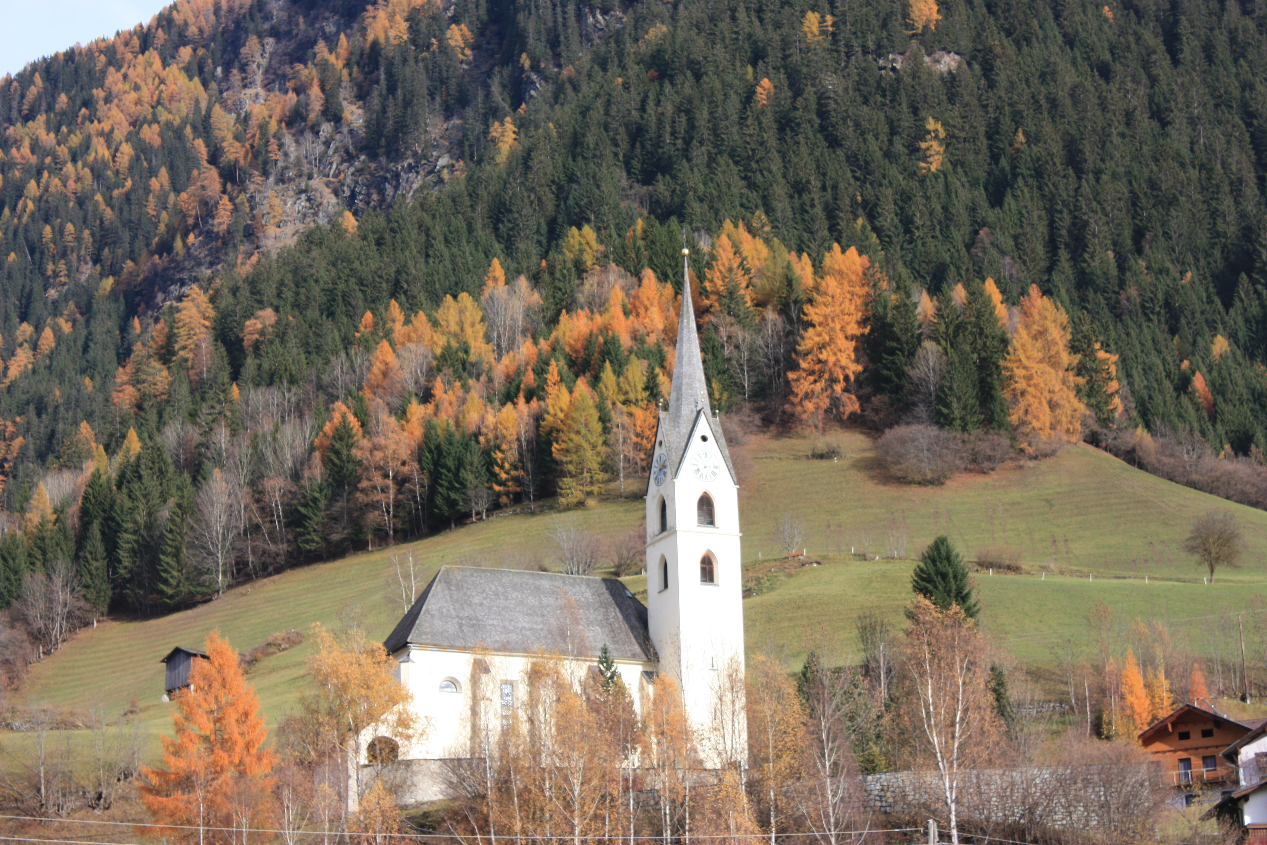 Parish church in Mörtschach